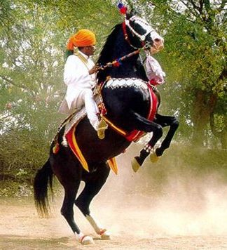 Marwari Horse in Rajasthan. Battle horse of the Rajputs.